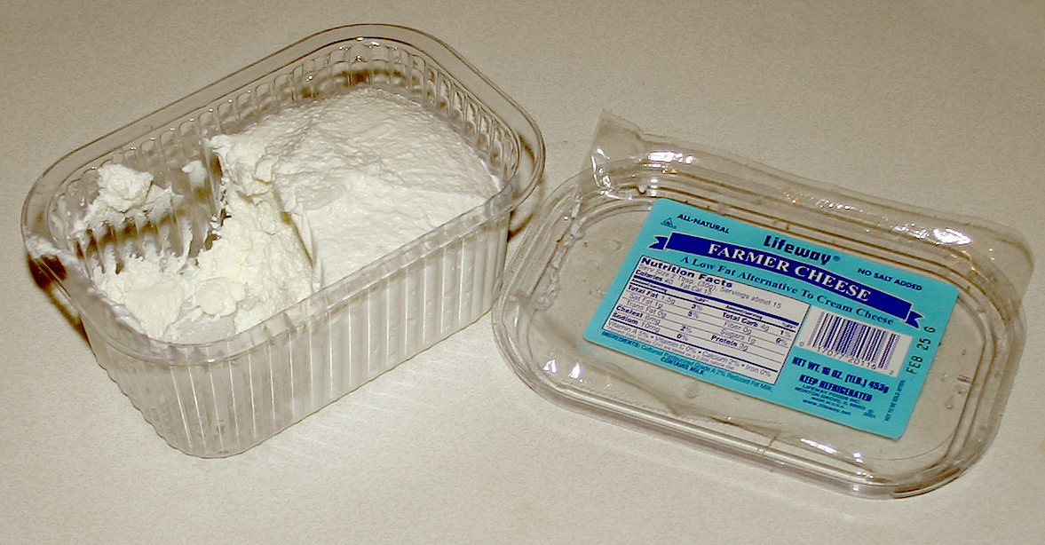 Example of store bought farmers cheese